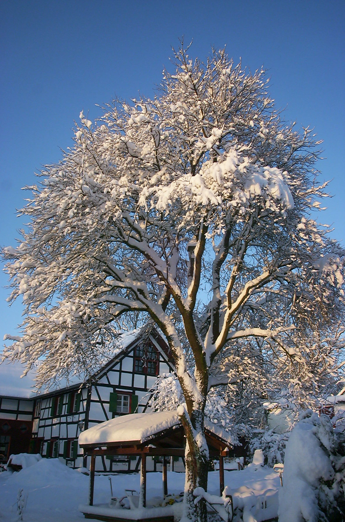 Snow in the Eifel